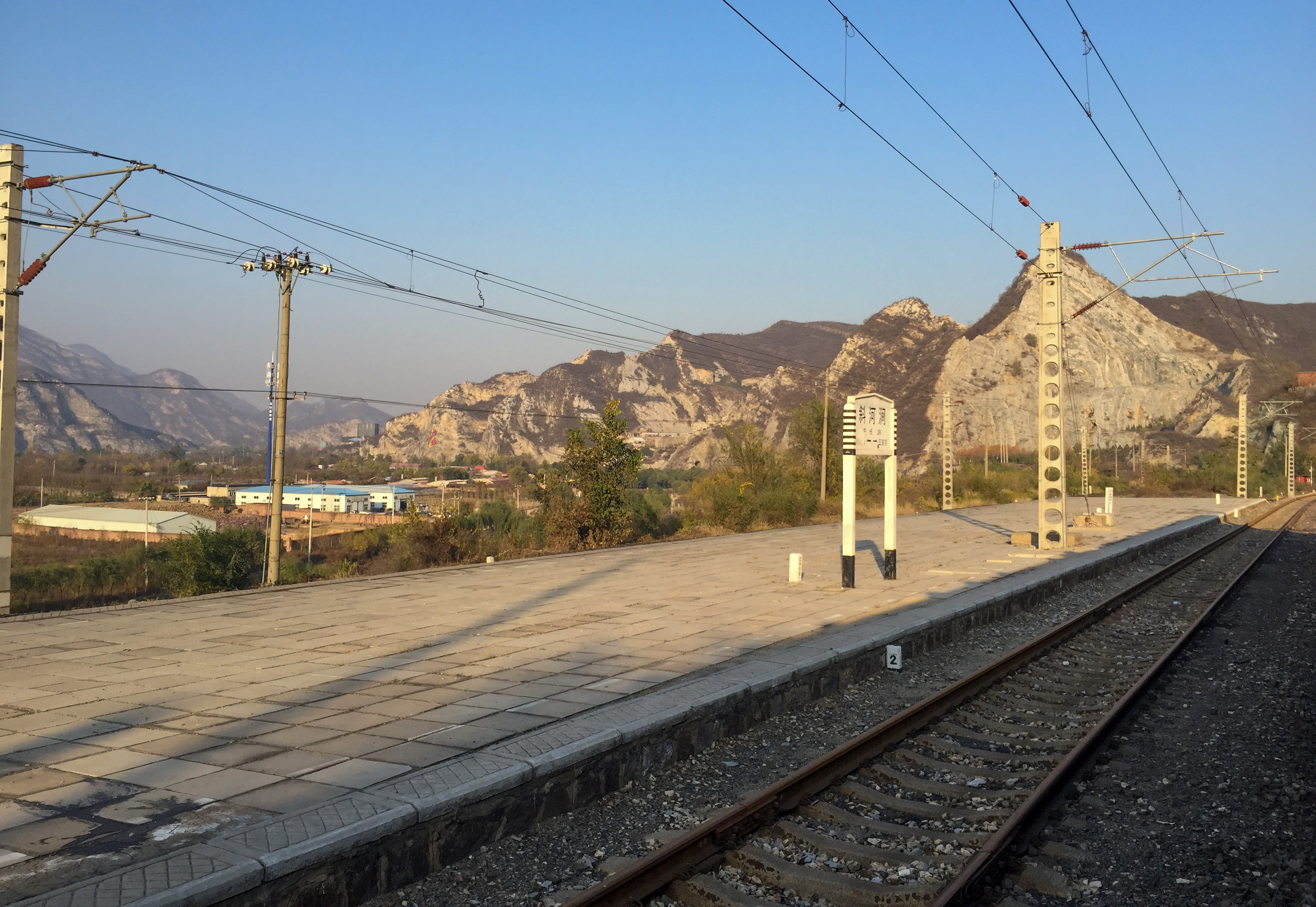 Note the Miaofengshan markings.